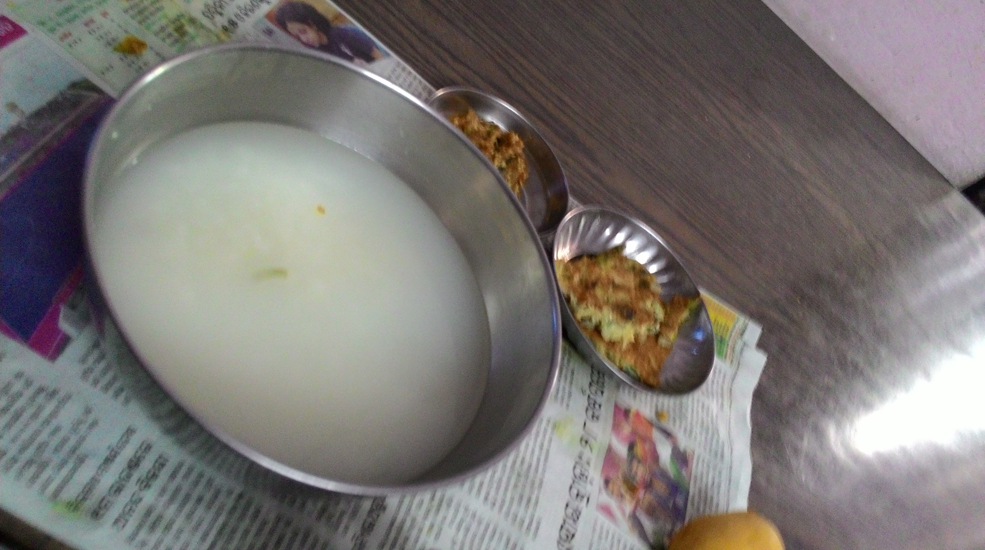 A old traditional food of odisha specially for summer season. Refreshing and soothing